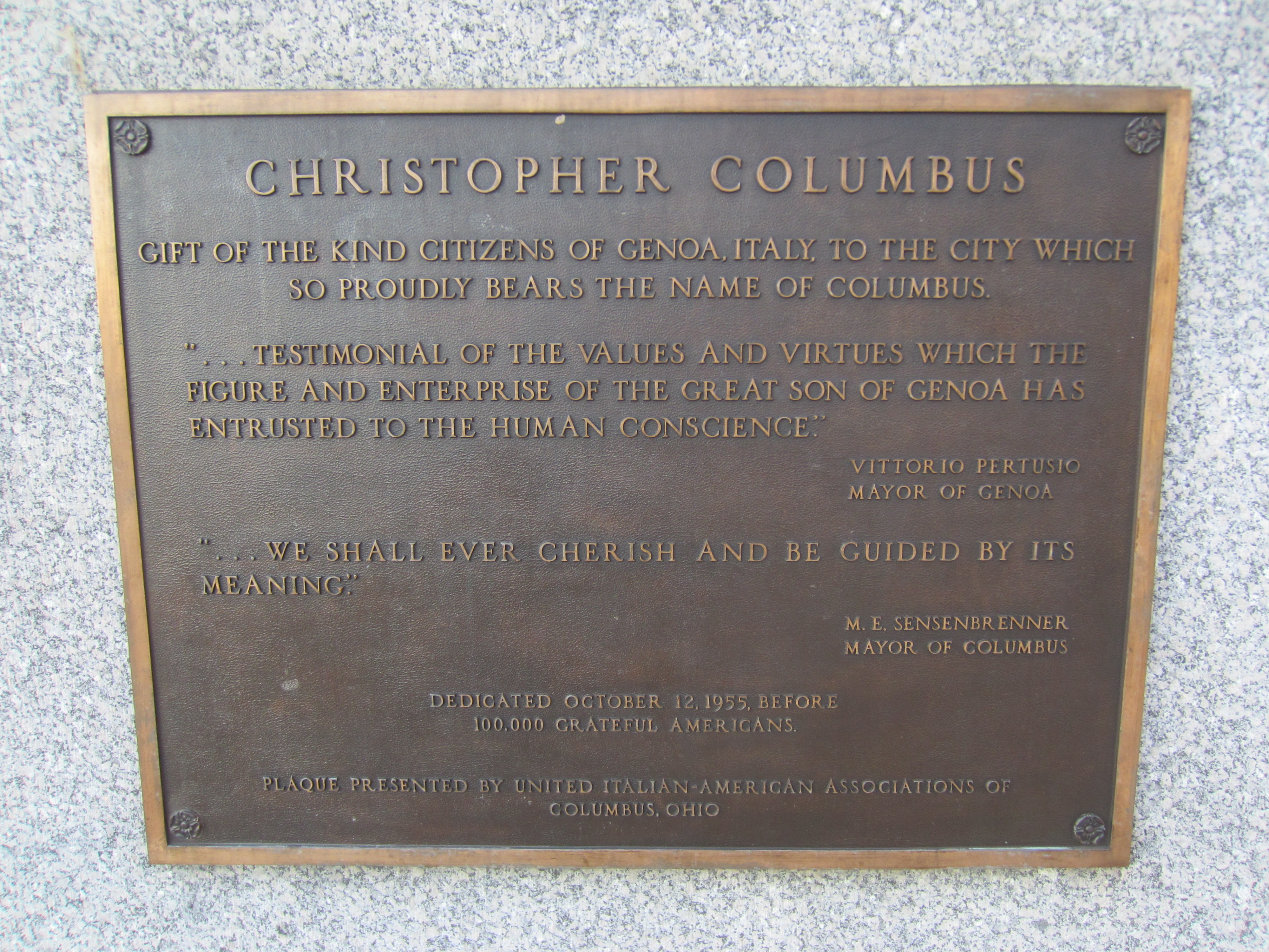 Columbus, Ohio (2018)